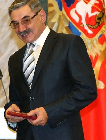 Alexander Pankratov, a Soviet / Russian screenwriter and film director.